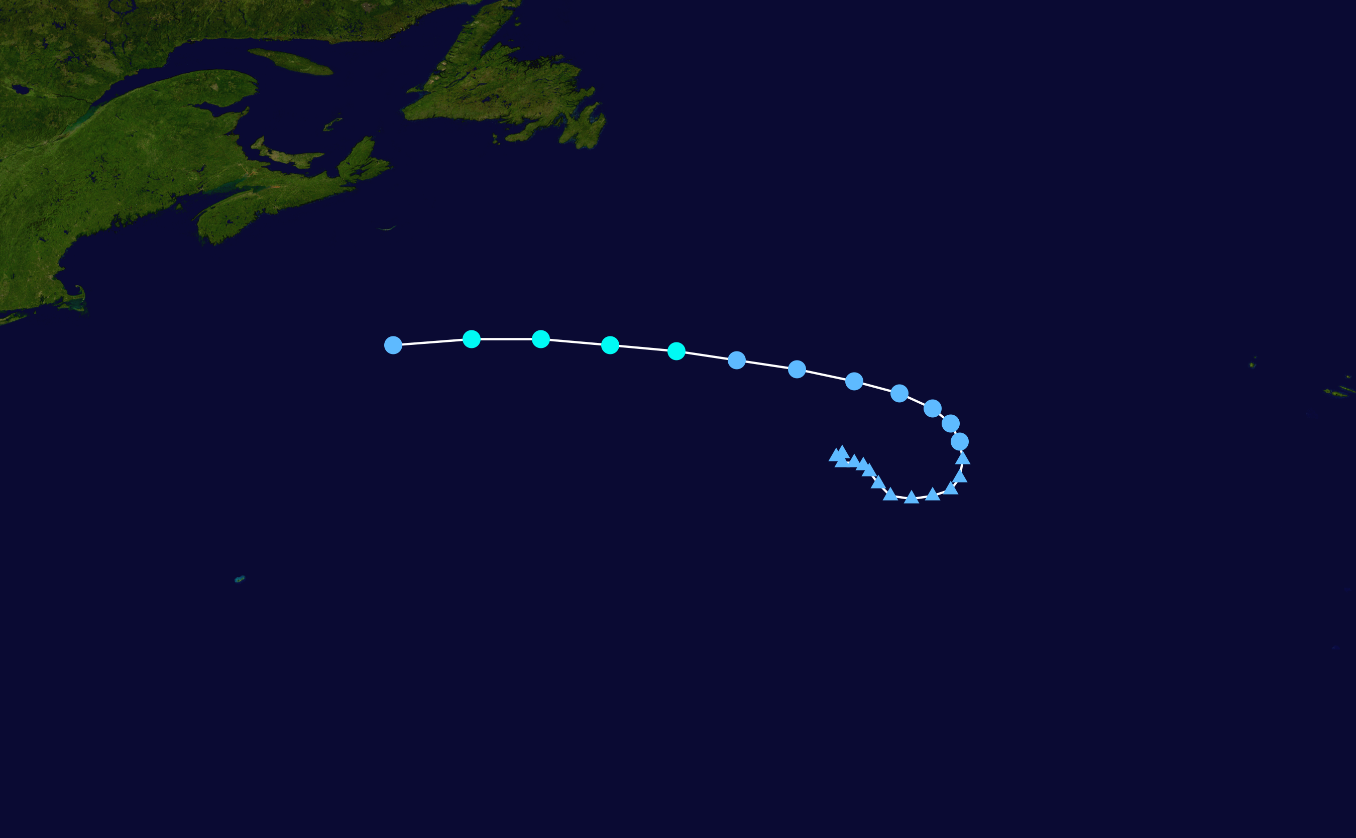 Track map of Tropical Storm Chantal of the 2019 Atlantic hurricane season. The points show the location of the storm at 6-hour intervals. The colour represents the storm's maximum sustained wind speeds as classified in the Saffir–Simpson scale (see below), and the shape of the data points represent the nature of the storm, according to the legend below. Saffir–Simpson scale Tropical depression≤38 mph≤62 km/h Category 3111–129 mph178–208 km/h Tropical storm39–73 mph63–118 km/h Category 4130–156 mph209–251 km/h Category 174–95 mph119–153 km/h Category 5≥157 mph≥252 km/h Category 296–110 mph154–177 km/h Unknown Storm type Tropical cyclone Subtropical cyclone Extratropical cyclone / Remnant low / Tropical disturbance / Monsoon depression